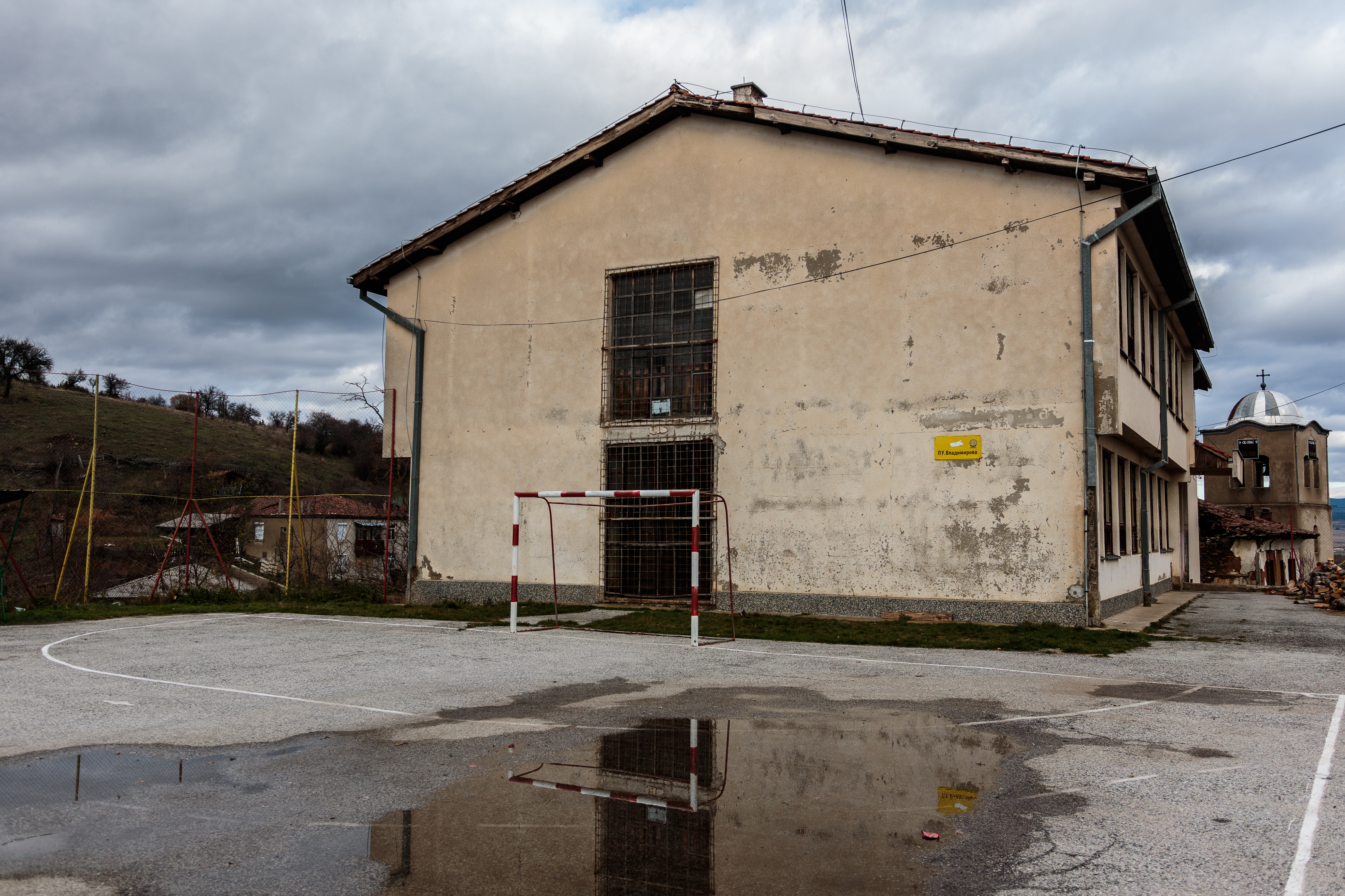 Primary school in the village Vladimirovo